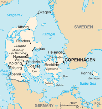 Map of Denmark